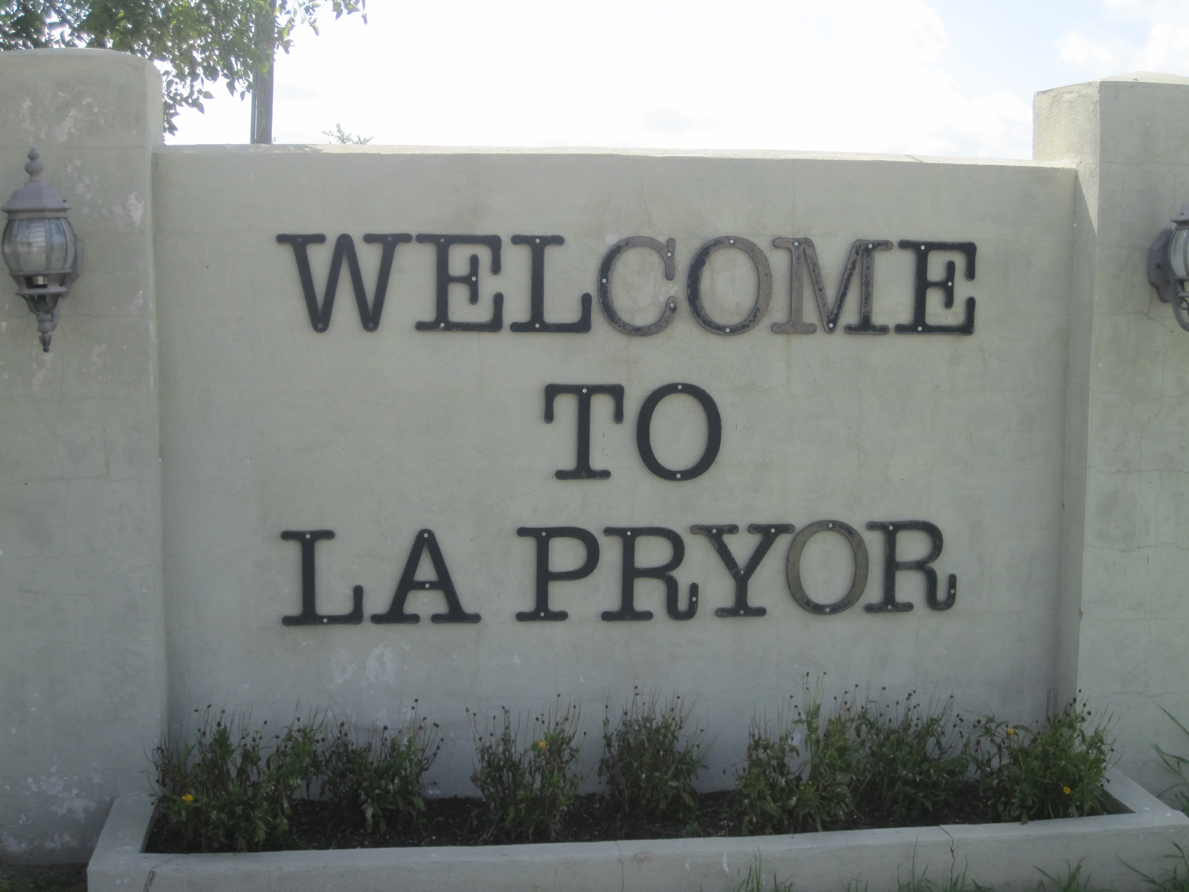 I took photo with Canon camera in La Pryor, TX.